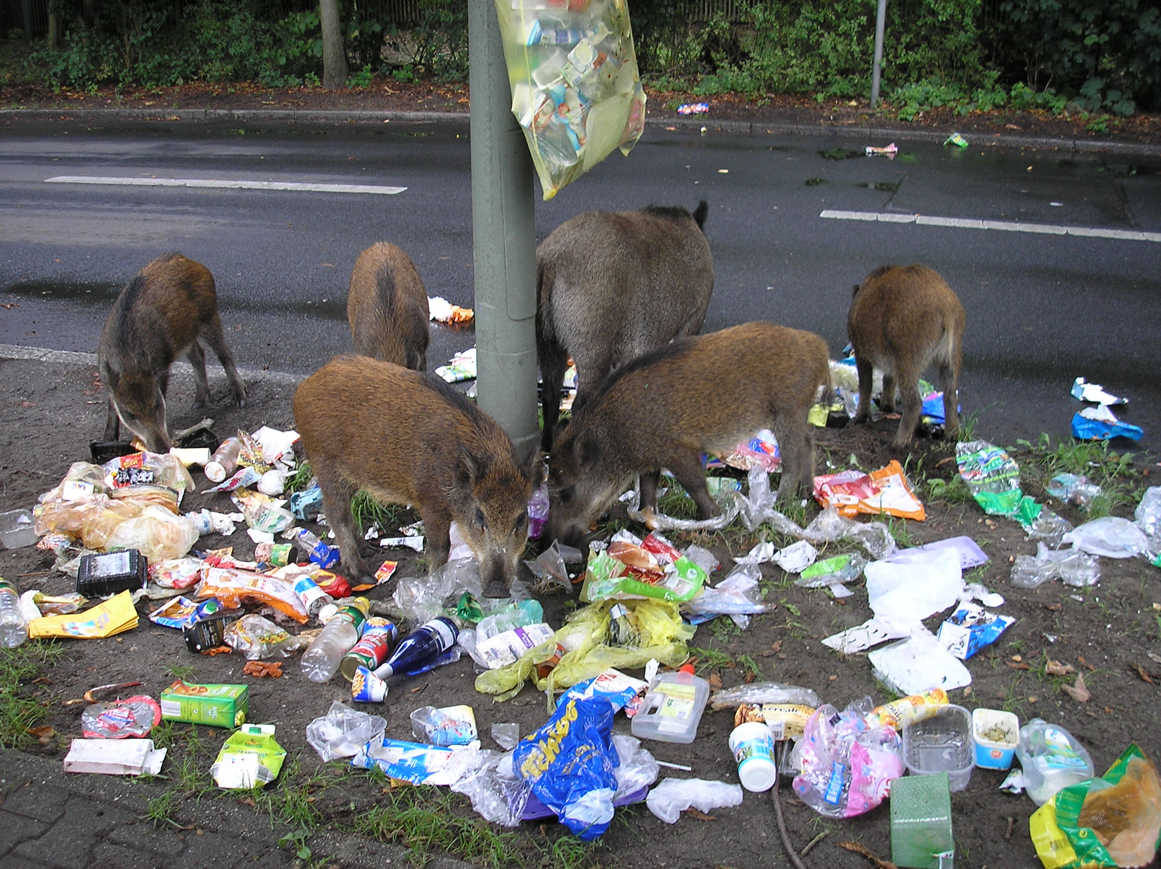 Wild sow with piglets looking for comestibles among human waste they dispersed in a suburb street in Berlin